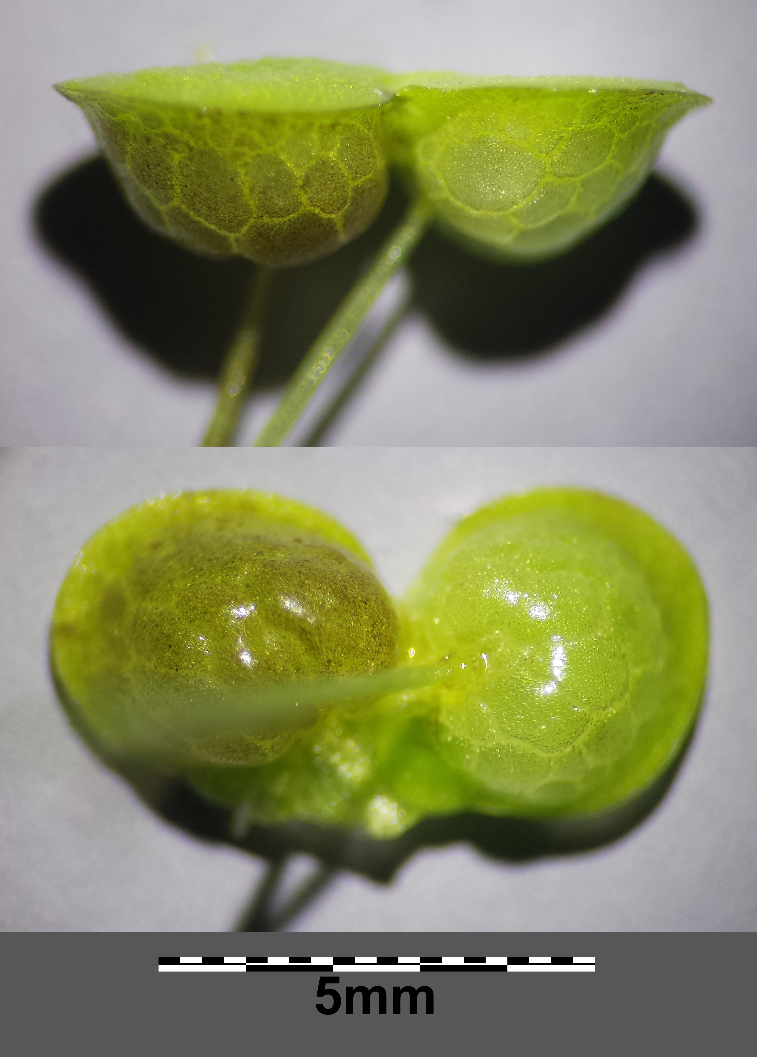 Habitus Taxonym: Lemna gibba ss Fischer et al. EfÖLS 2008 ISBN 978-3-85474-187-9 Location: pond near Goldenes Bründl, Rohrwald, district Korneuburg, Lower Austria - ca. 225 m a.s.l. Habitat: pond